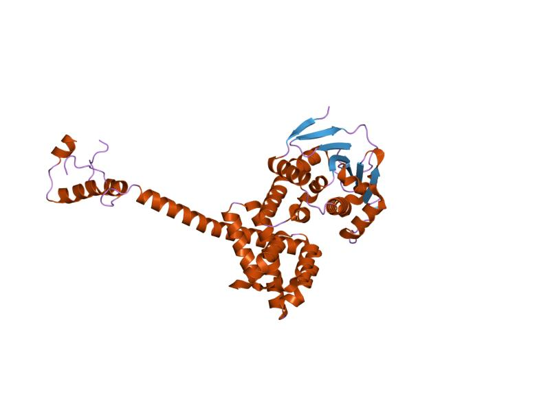 Cartoon representation of the molecular structure of protein registered with 1us7 code.